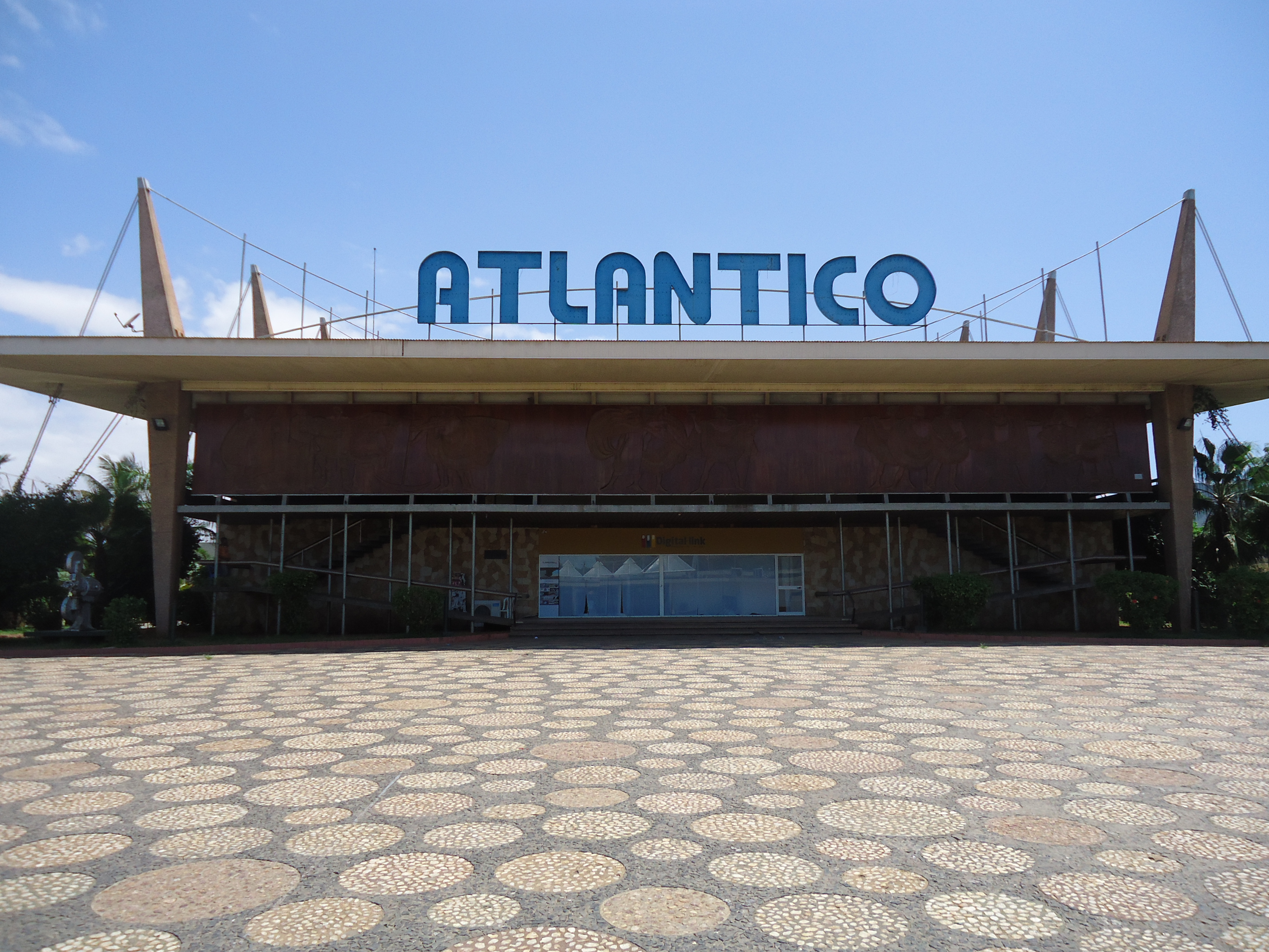 Streets, buildings and cultural institutions of Luanda. Photo by Fabio Vanin, Luanda, 2013.